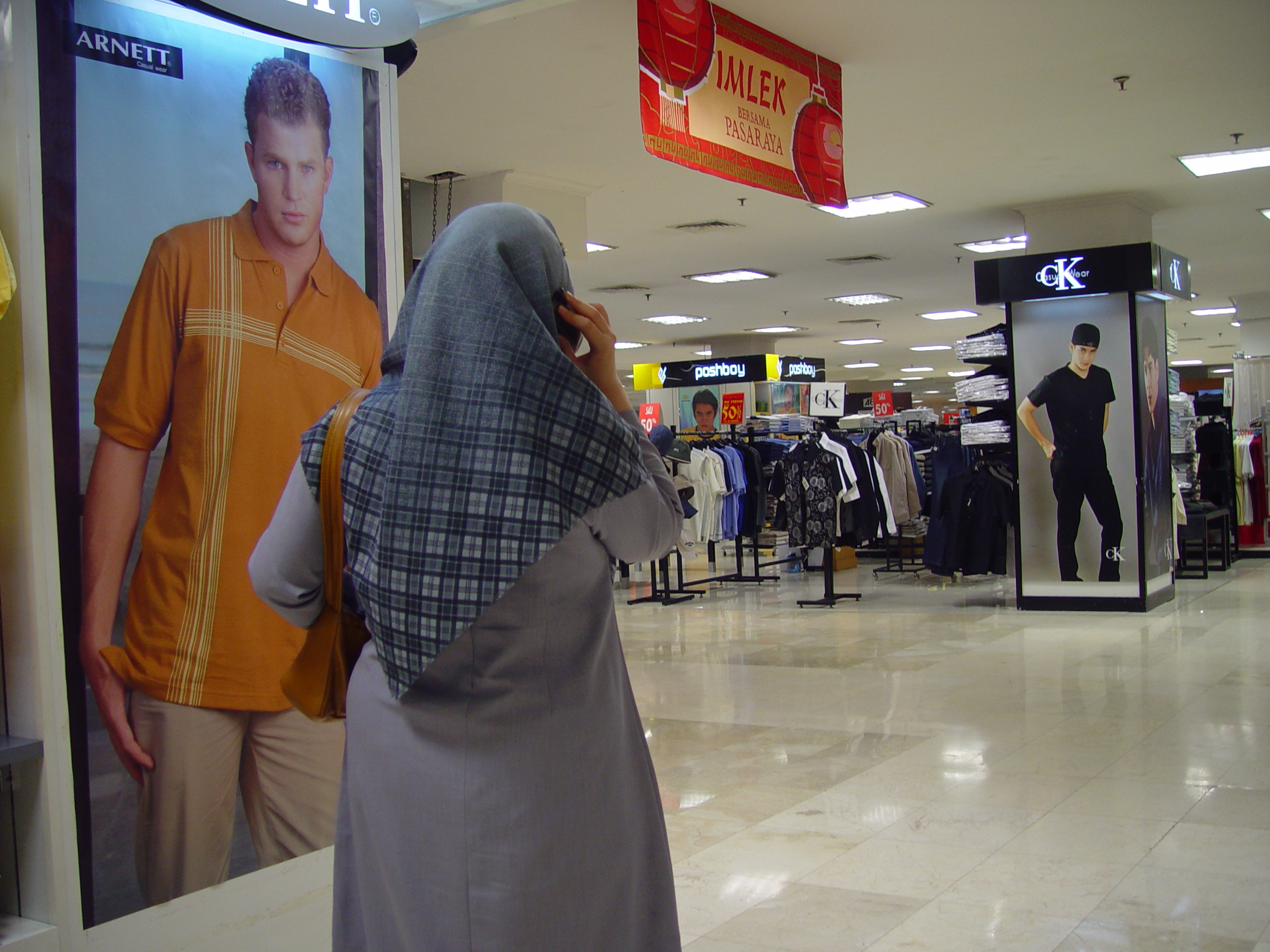 Corporate globalization and mall cultural in Jakarta, Indonesia.